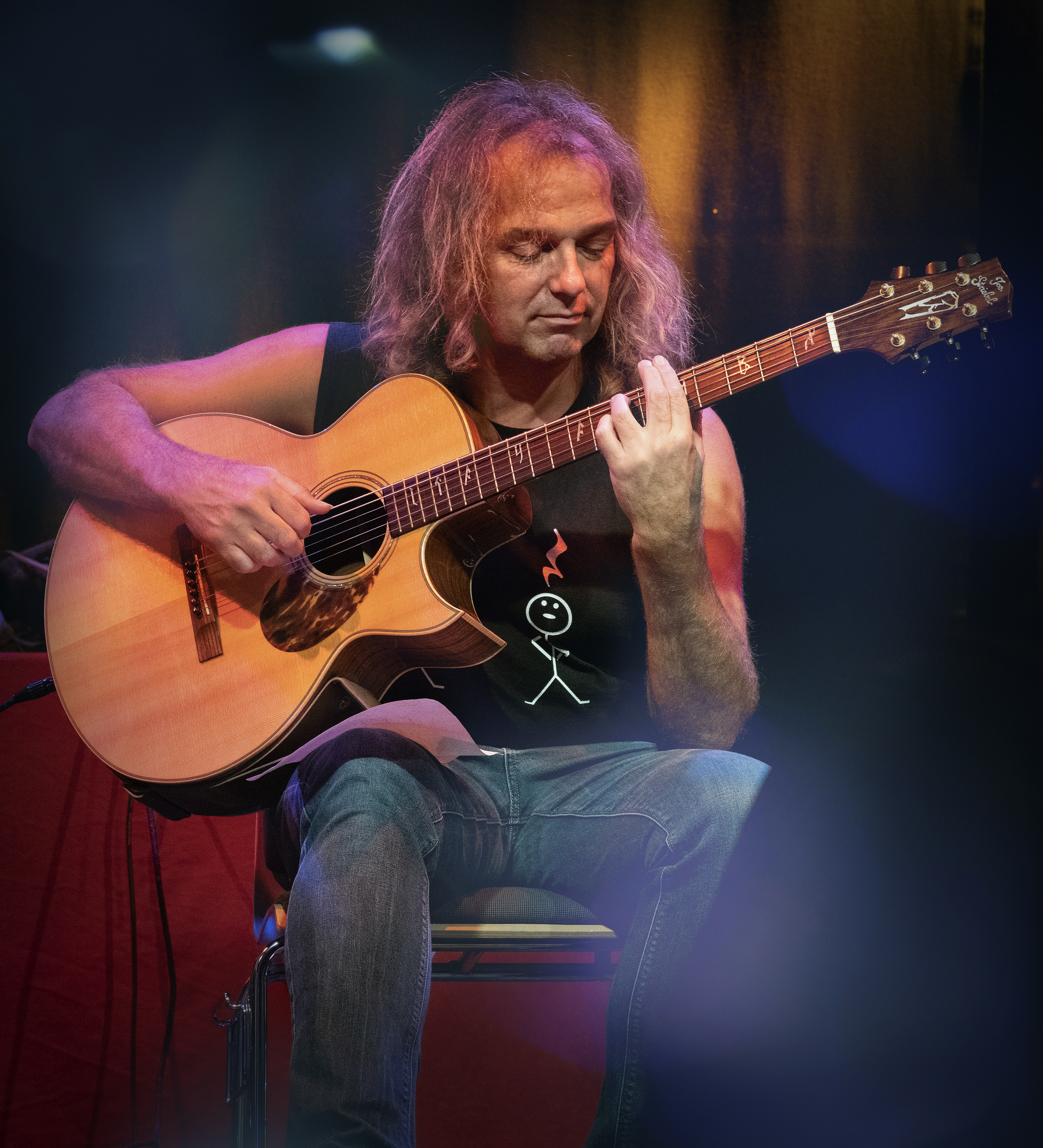 Peter Autschbach live @ Kulturwerk Wissen, Germany, September 07th, 2018